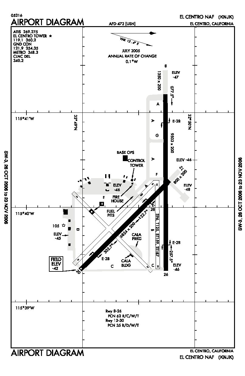 FAA airport diagram for NJK (NAF El Centro) in California, United States.